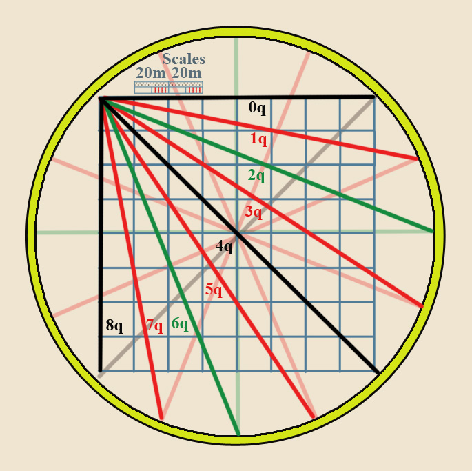 Reproduction of the basic features of the tondo e quadro ("circle and square") depicted in the 1436 atlas of Venetian captain Andrea Bianco, a visual tool for the Rule of Marteloio. Rays emanating from the top left corner are spaced at one quarter-wind (11.25 degrees). The bar scale at top measures the units of the square grid at either 20 miles or 100 miles (depending on whether one uses the top or lower scale on the bar.)